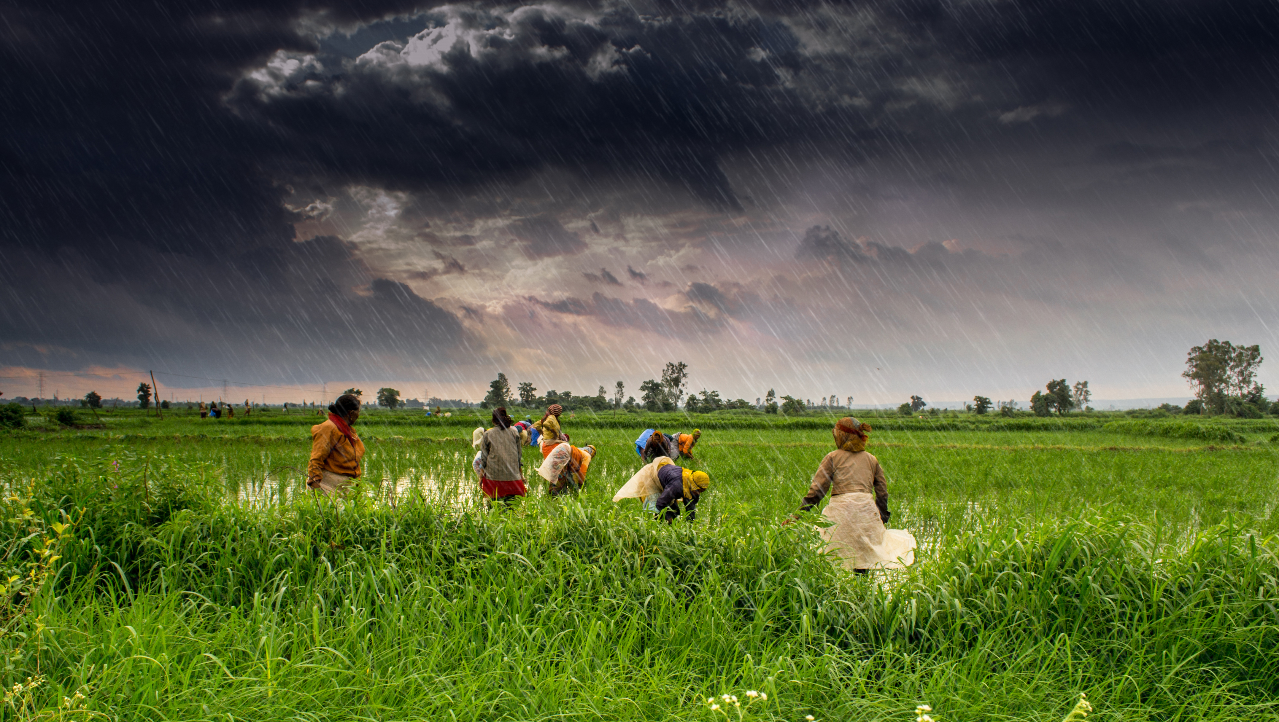 Riding through the lush green valleys of Madhya Pradesh, India Farms during India's monsoon season offer some spectacular views!